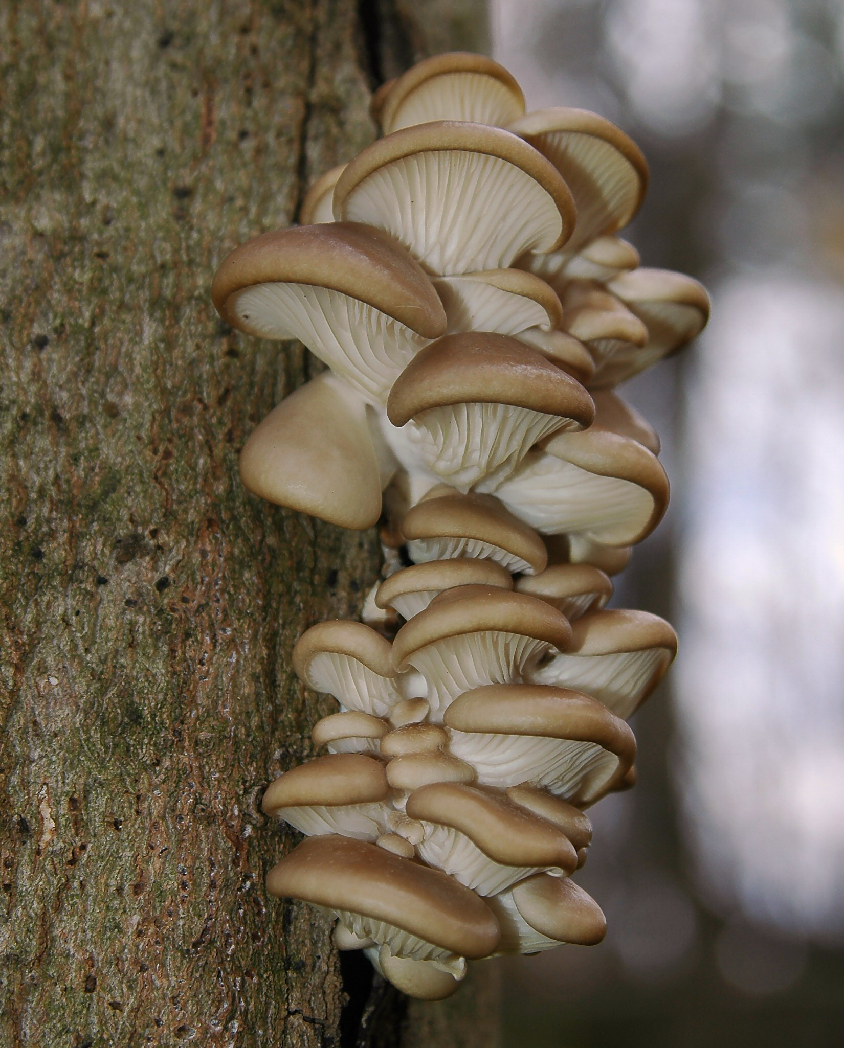 Pleurotus ostreatus (Jacq.) P. Kumm. Image location: Westmoreland Co., Pennsylvania, USA Recognized by sight For more information about this, see the observation page at Mushroom Observer.